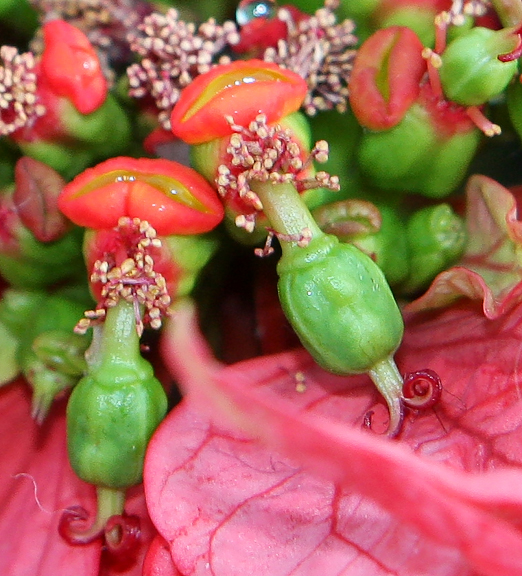 Self made image of Pointsetta flowers.